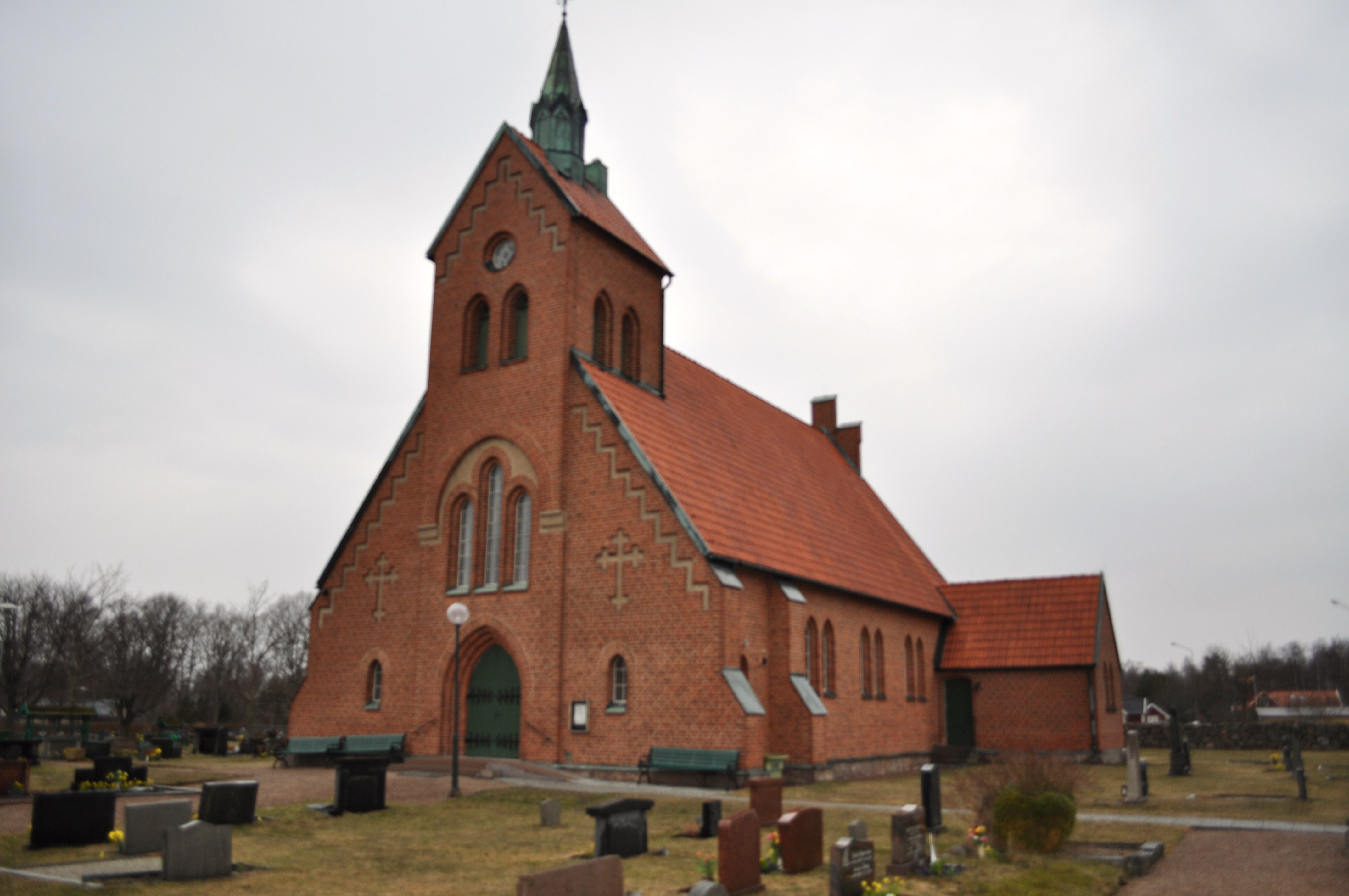 Haslö kyrka - Lunds stift